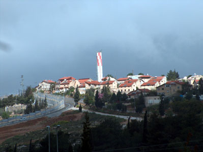 Beit Horon, Israeli settlement in West Bank